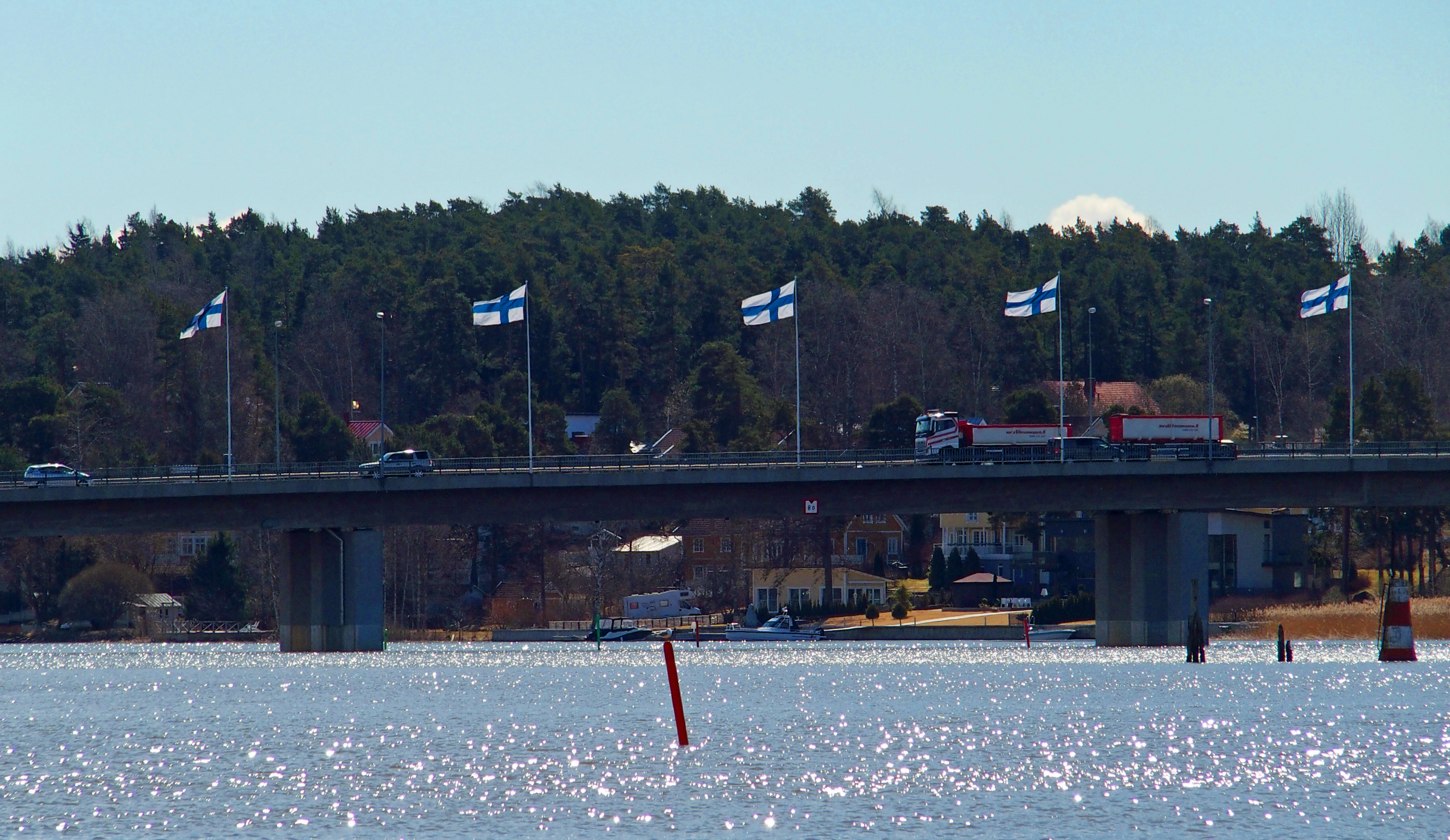 Hirvensalo bridge from Lauttaranta, Hirvensalo island, Turku, Finland.